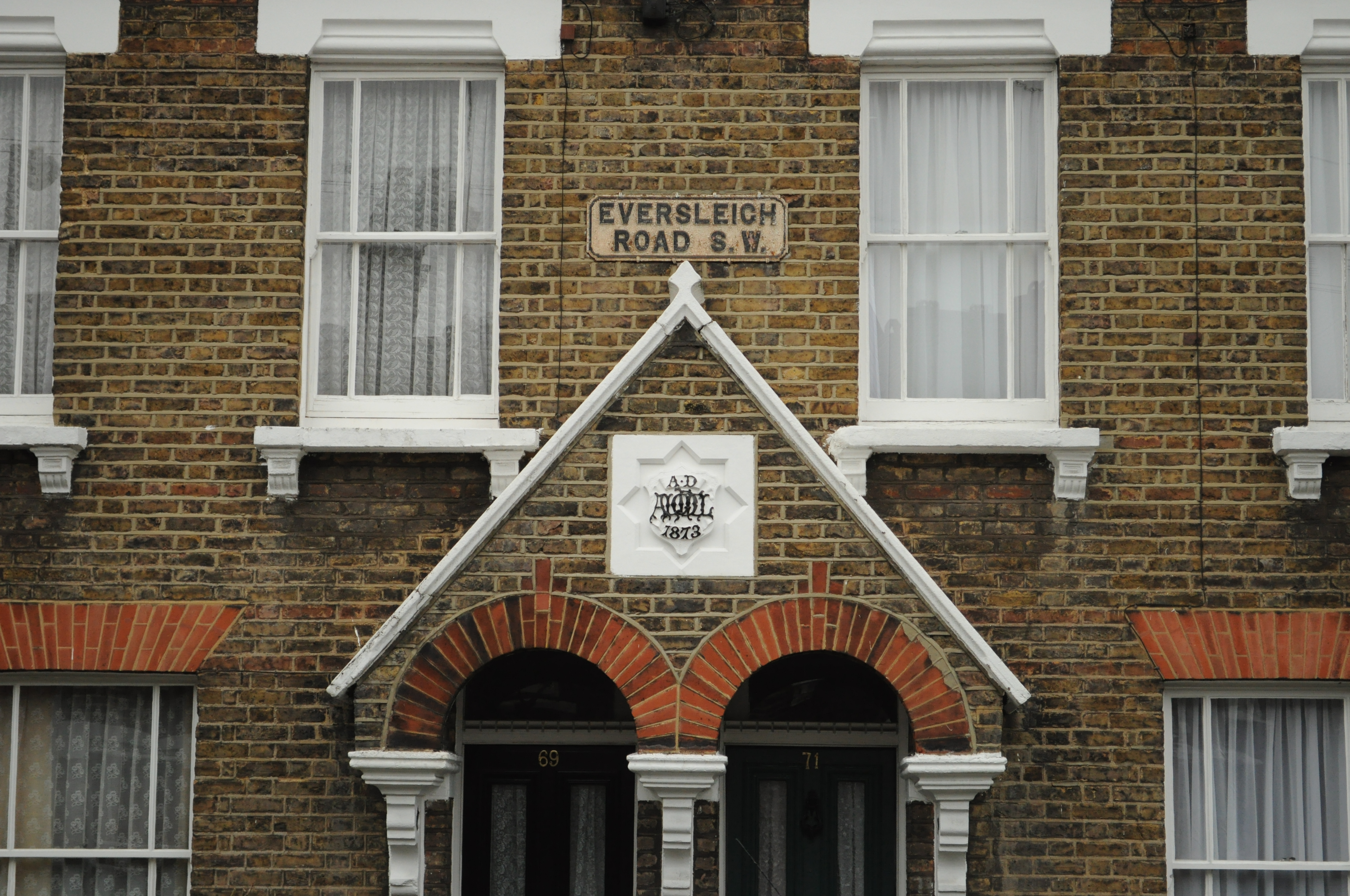 An example of the characteristically "paired" doors of the Victorian terraced houses making up the Shaftesbury Park Estate Wikidata has entry Q26318564 with data related to this item.